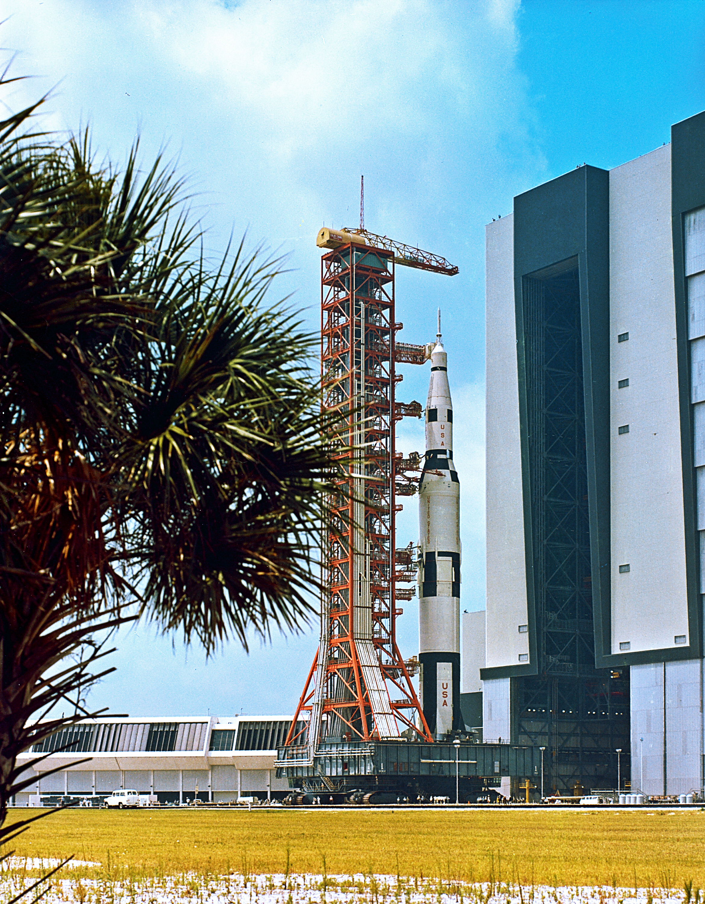 The Apollo Saturn V 500F Facilities Test vehicle, after conducting the VAB stacking operations, rolls out of the VAB on its way to Pad 39A to perform crawler, Launch Umbilical Tower, and pad operations.